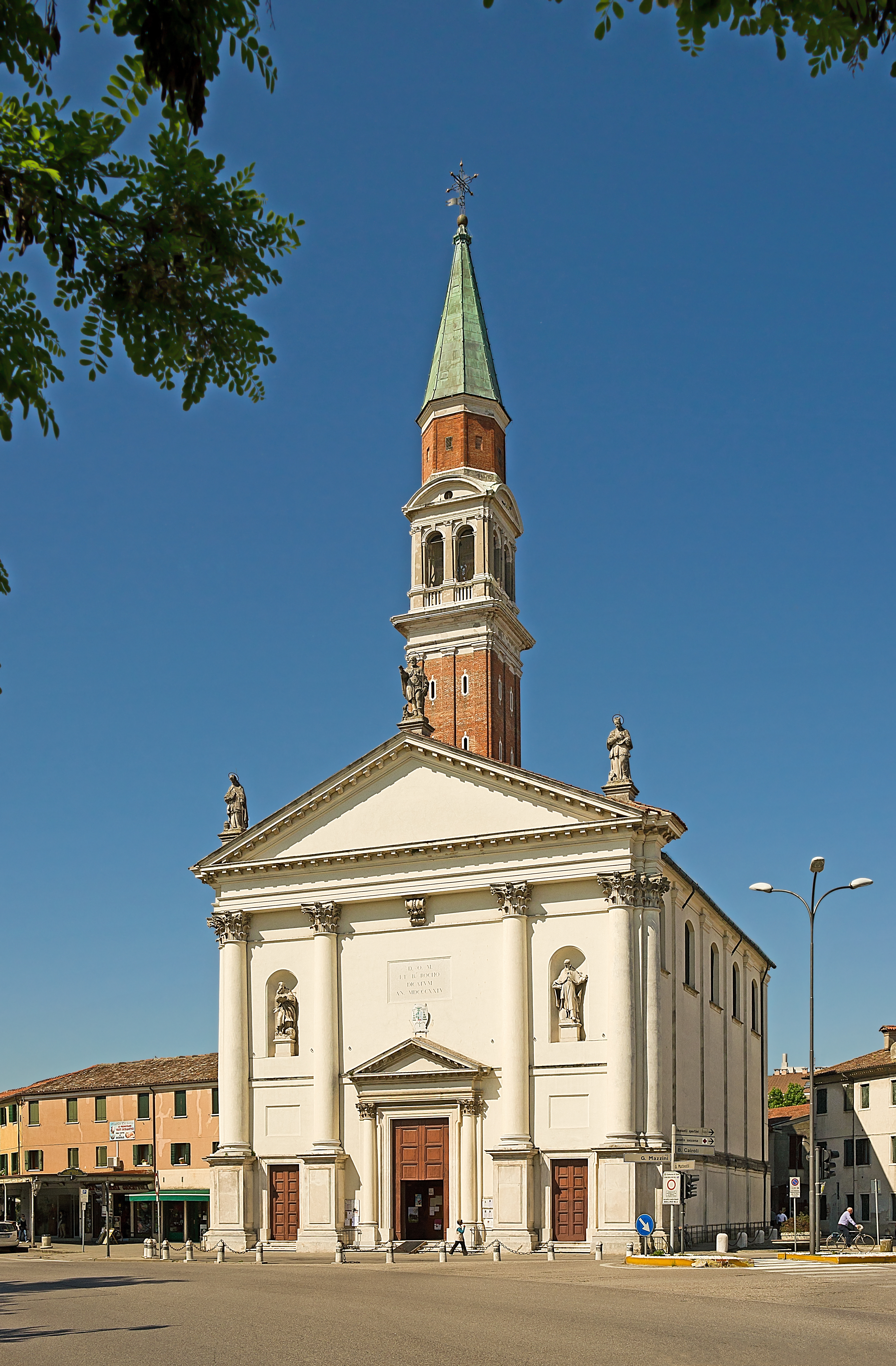 San Rocco - Cathedral of Dolo.